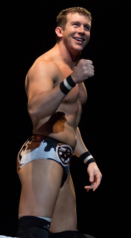 Ted DiBiase acknowledges the fans. Taken January 7, 2012 during a WWE SmackDown live event in Montgomery, Alabama.